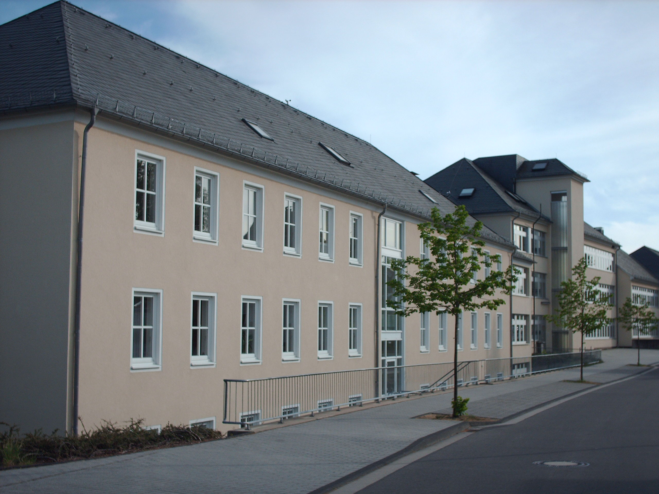 Kreis Olpe district office, Olpe, Germany check usage